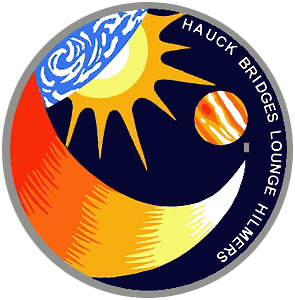 This is the patch for the cancelled Space Shuttle mission STS-61-F, depicting the journey of the Ulysses probe from Earth, around Jupiter, and towards the Sun.